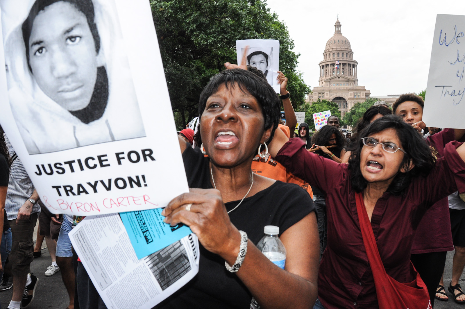 Black people protest